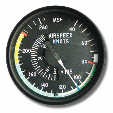 Figure 12-1. Airspeed indicator markings for a multiengine airplane. The lower limit of the white line around 73 kts marks VS0 – stalling speed or the minimum steady flight speed in the landing configuration. The red line at 80 kts marks VMC – minimum control speed with the critical engine inoperative. The lower limit of the green arc at 80 kts marks VS1 – stalling speed or the minimum steady flight speed in the clean configuration. The blue line at 105 kts marks VYSE – best rate-of-climb speed with one engine inoperative. The upper limit of the white arc around 125 kts marks VFE – the maximum speed with the flaps extended. The yellow arc marks caution area of speeds above VNO – maximum structural cruising speed. The red line around 225 kts marks VNE – never-exceed speed.